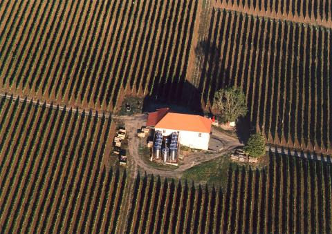 Bodrogolaszi, Hungary, aerial photography not Bodrogolaszi, actually